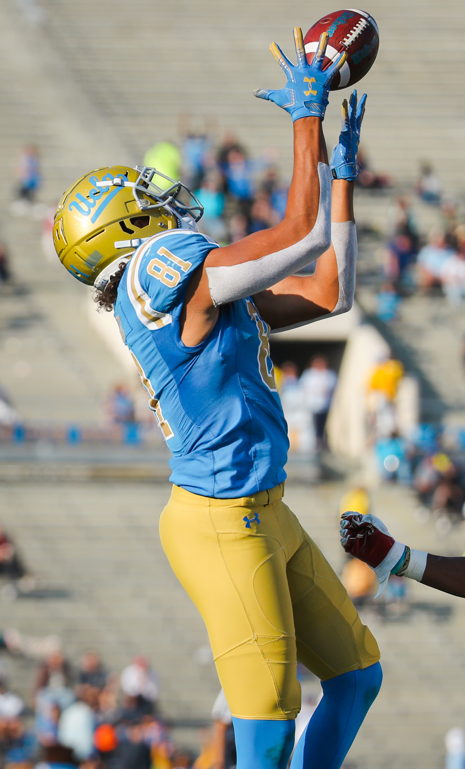 UCLA Bruins tight end Caleb Wilson (81) can't make a big catch on 3rd down with Stanford Cardinal safety Frank Buncom (5) defending in the 3rd quarter.